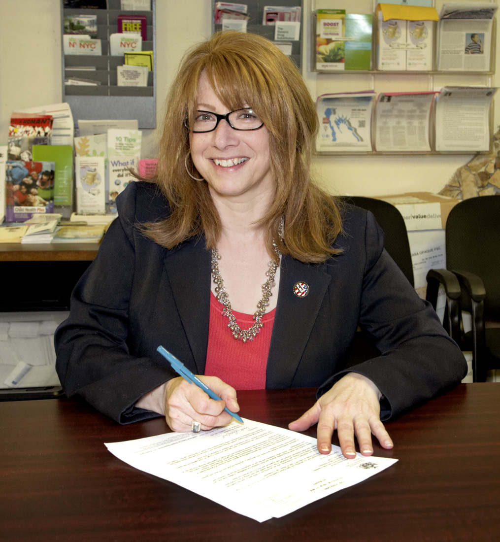 NYS Assembly member Linda B. Rosenthal of the 67th Assembly District representing Clinton and the Upper West Side.